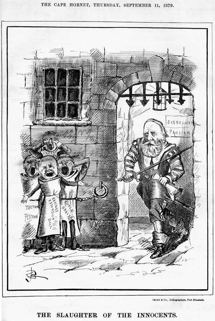 Cartoon from the 1879 newspaper The Cape Hornet voicing a rare criticism of PM Gordon Sprigg as he cuts the country's health and infrastructure works to pay for the ongoing Confederation wars.